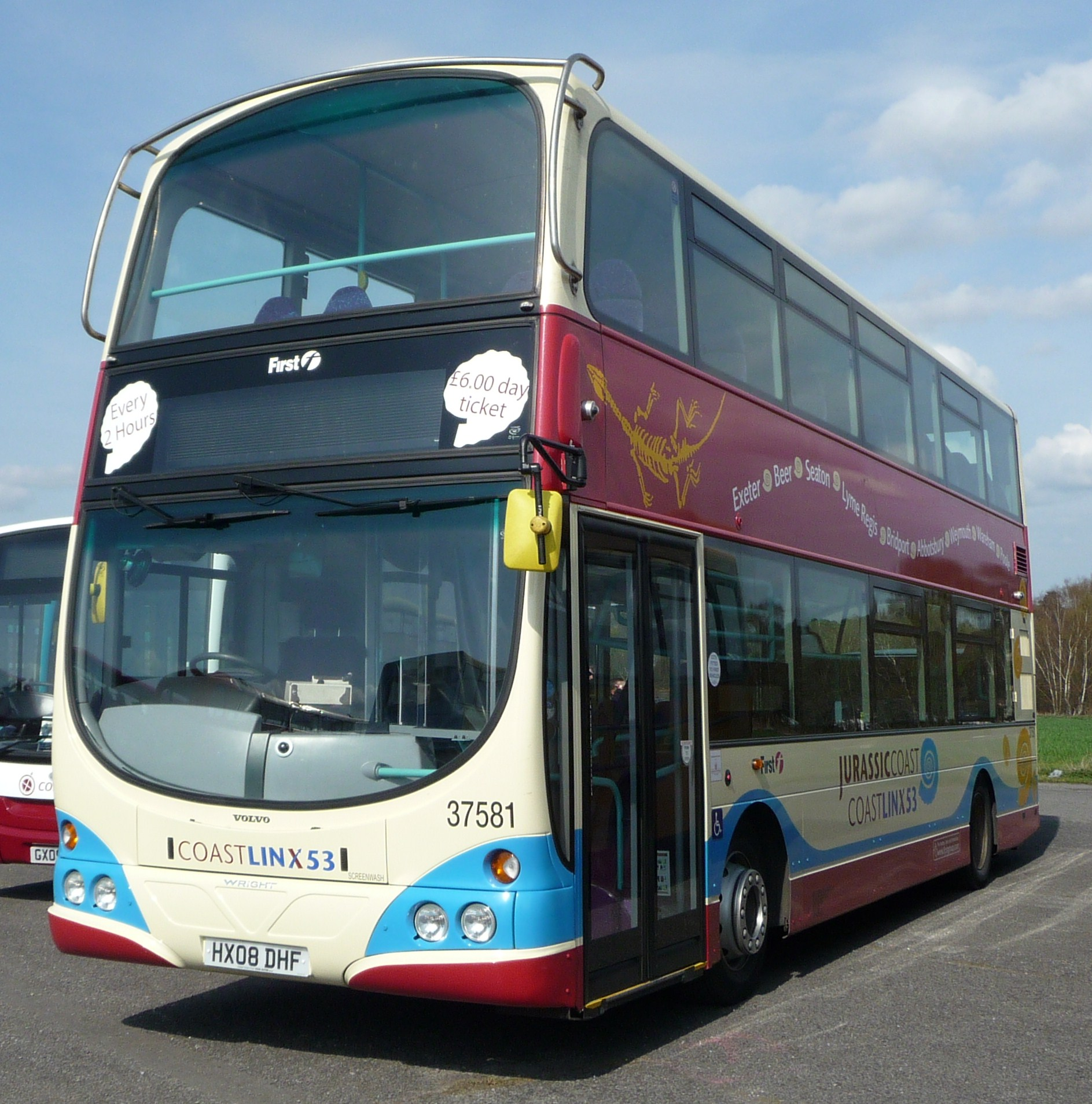 First Hampshire & Dorset's 37581 (HX08 DHF), a Volvo B9TL/Wright Eclipse Gemini, at the 2009 Cobham bus rally at Wisley Airfield.